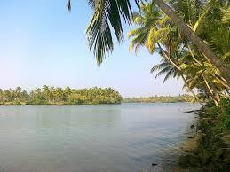 ഇടയിലക്കാട് ഒരു ദൃശ്യം